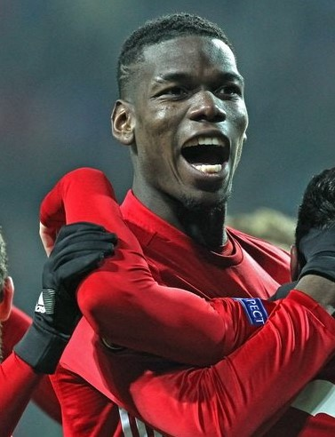 Paul Pogba